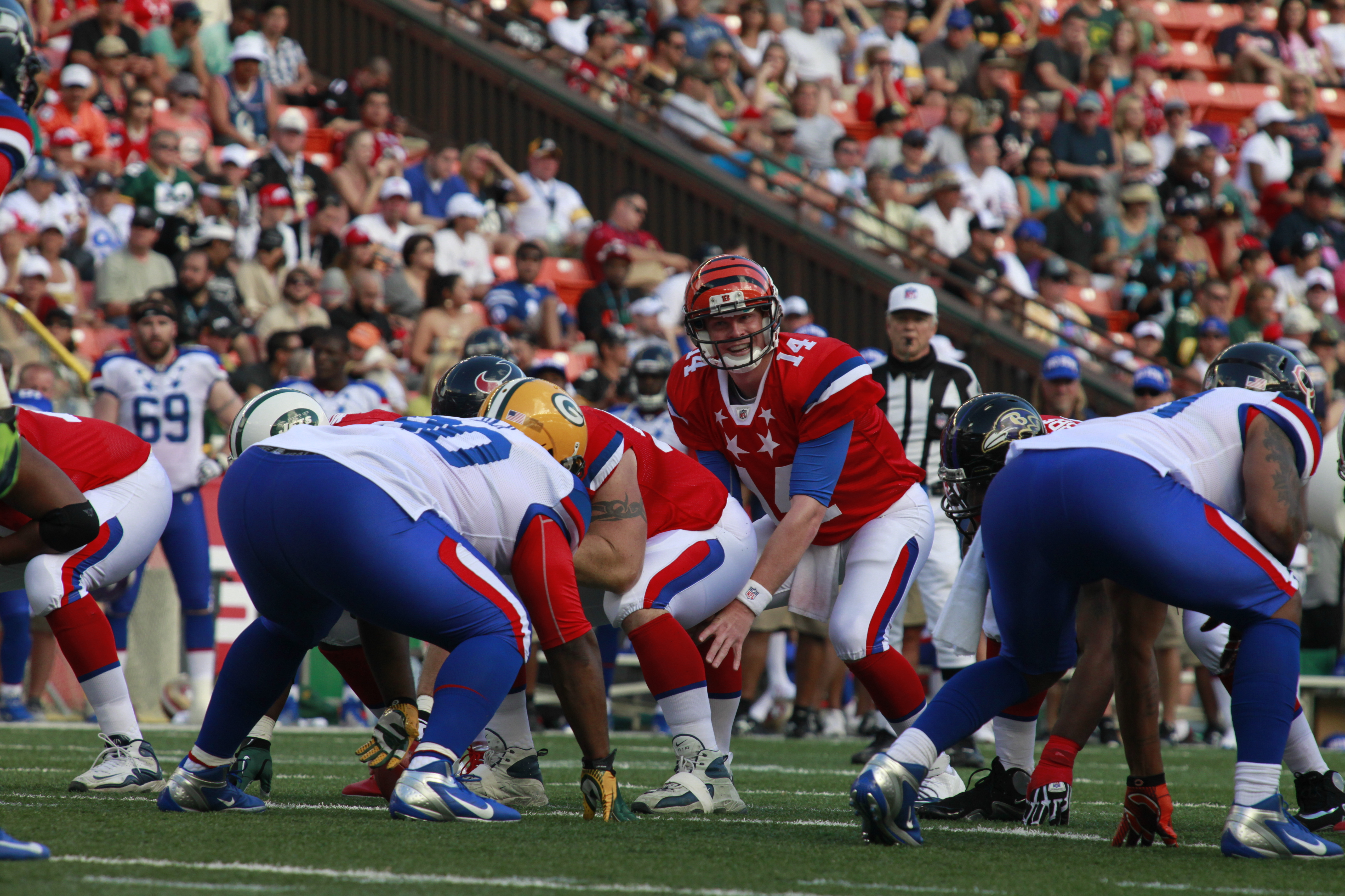 Cincinnati Bengals quarterback Andy Dalton calls a play at the Aloha Stadium during National Football League's 2012 Pro Bowl game in Honolulu, Hawaii, Jan. 29, 2012.